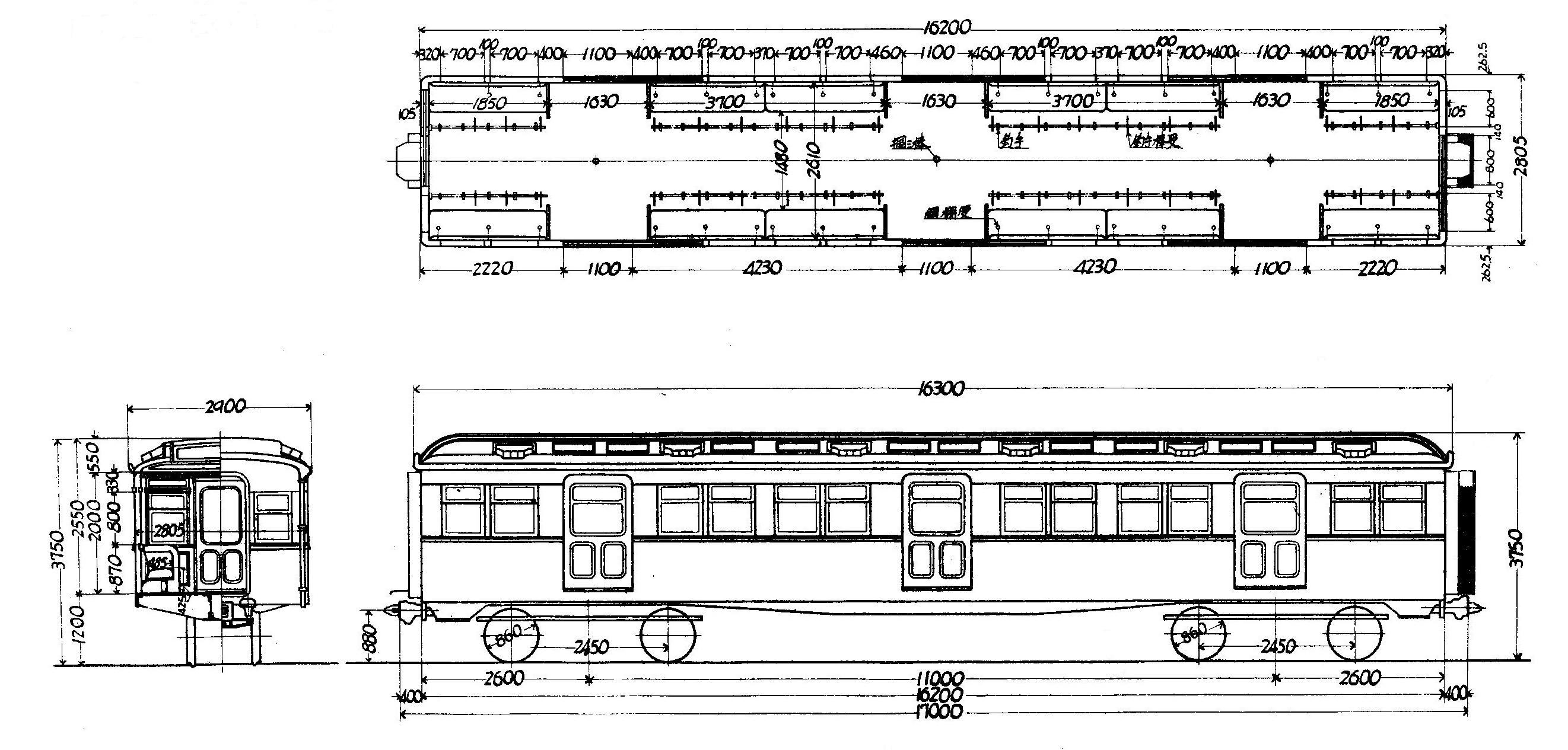 Type drawing of JNR's electric car Saha17 (ex. Saro35)